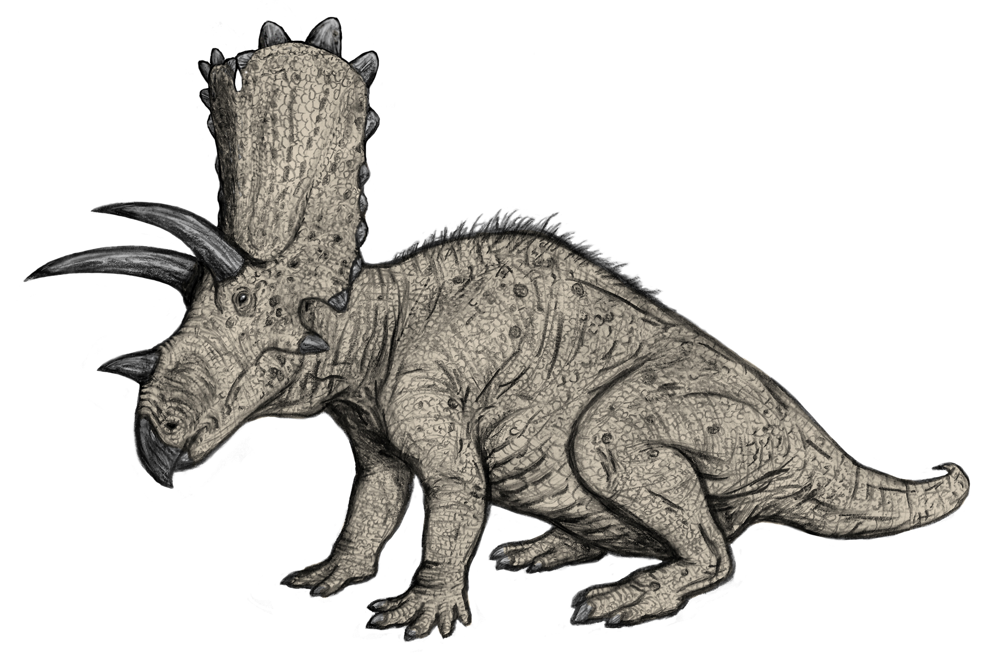 Terminocavus sealeyi restoration (modified from the now dubious Bravoceratops polyphemus).